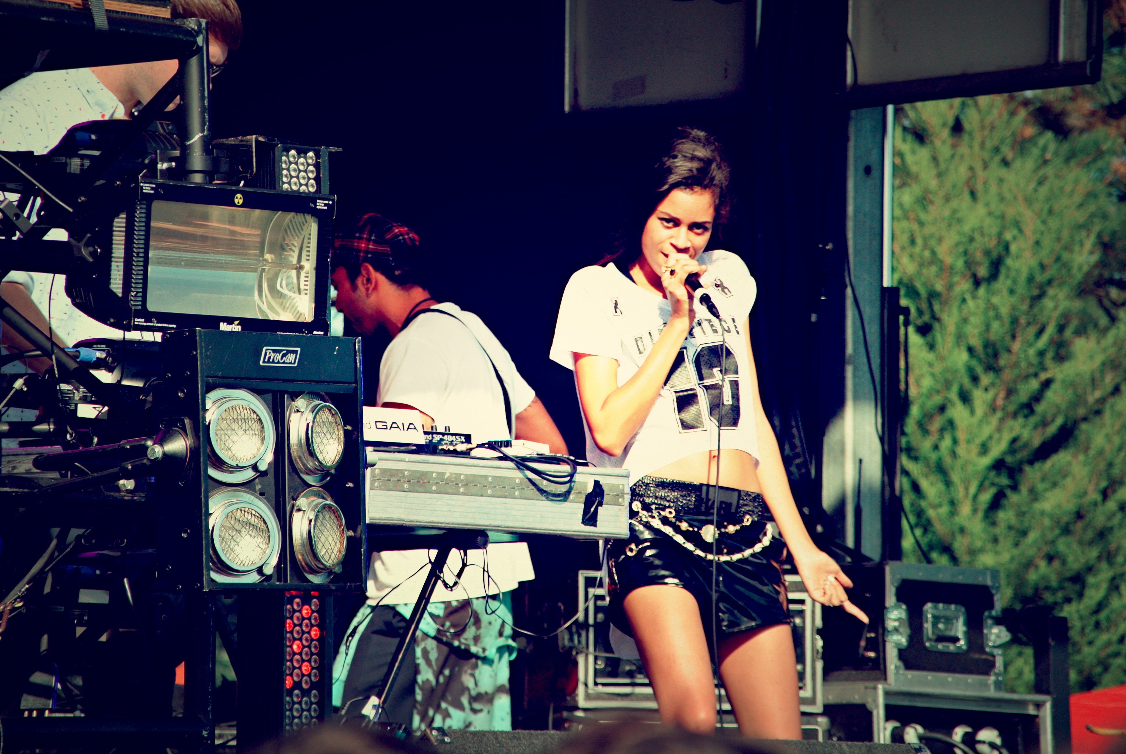 AlunaGeorge at St. Jerome's Laneway Festival, Detroit